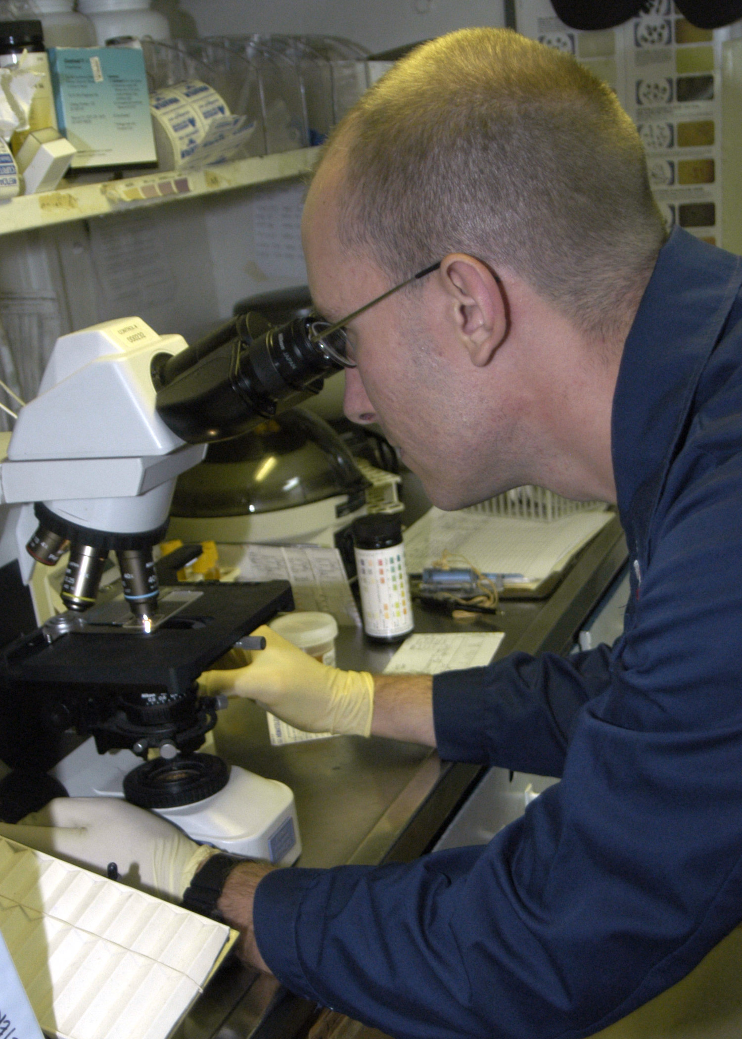 Atlantic Ocean (Jun. 16, 2004) - Advanced laboratory technician Hospital Corpsman 2nd Class John Zettlemoyer views a blood sample through a forensics microscope in the medical laboratory aboard the conventionally powered aircraft carrier USS John F. Kennedy (CV 67). Kennedy is one of seven aircraft carriers involved in the Summer Pulse 2004 Exercise. Summer Pulse 2004 is the simultaneous deployment of seven aircraft strike groups (CSGs), demonstrating the ability of the Navy to provide credible combat across the globe, in five theaters with other U.S., allied, and coalition military forces. Summer Pulse is the Navy's first deployment under its new Fleet Response Plan (FRP). U.S. Navy photo by Photographer's Mate Airman Tommy Gilligan (RELEASED) For more information go to